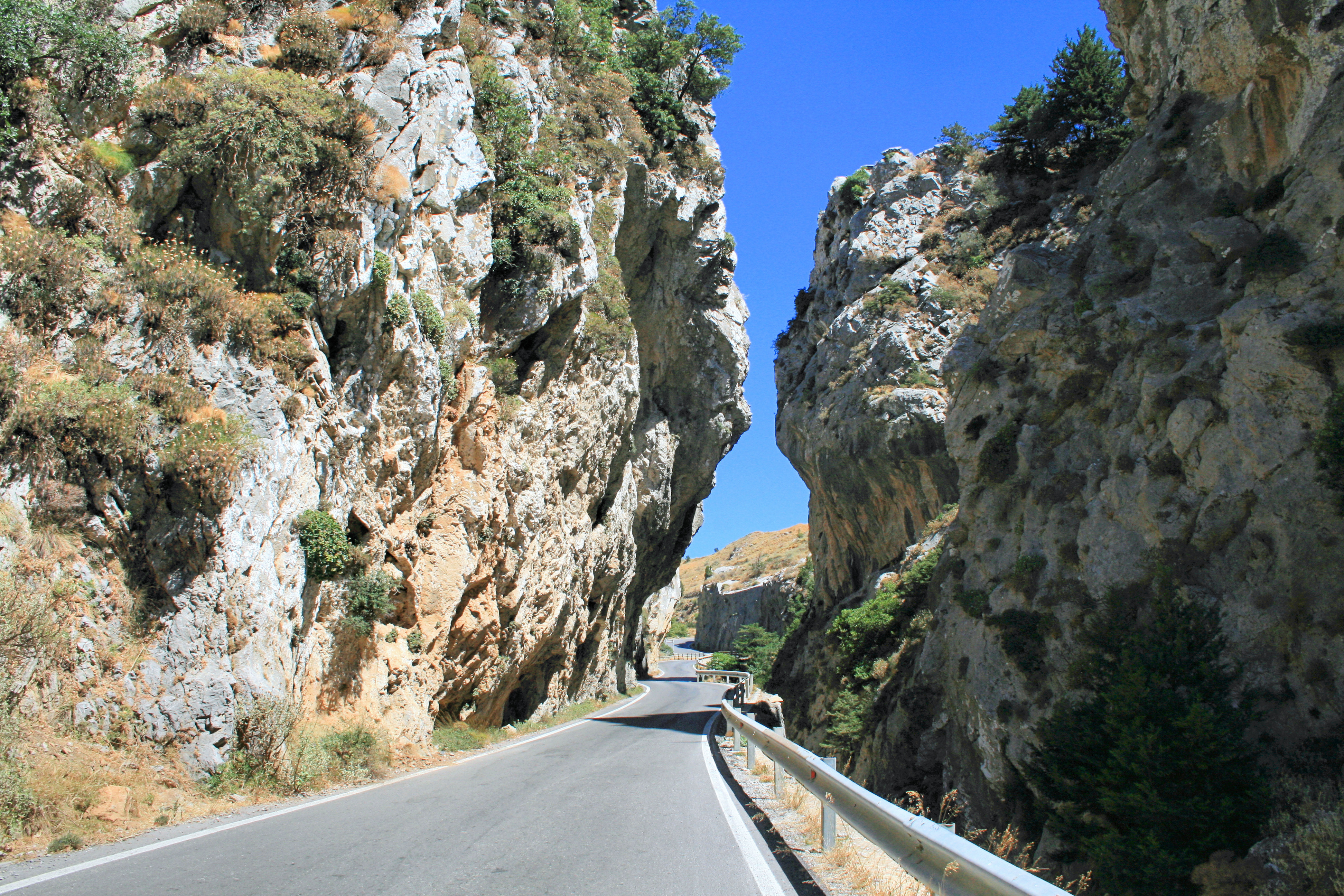 Kotsifos Gorge on the island of Crete, view in a northward direction